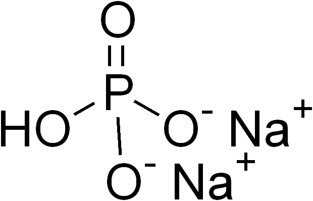 chemical structure of disodium hydrogen phosphate